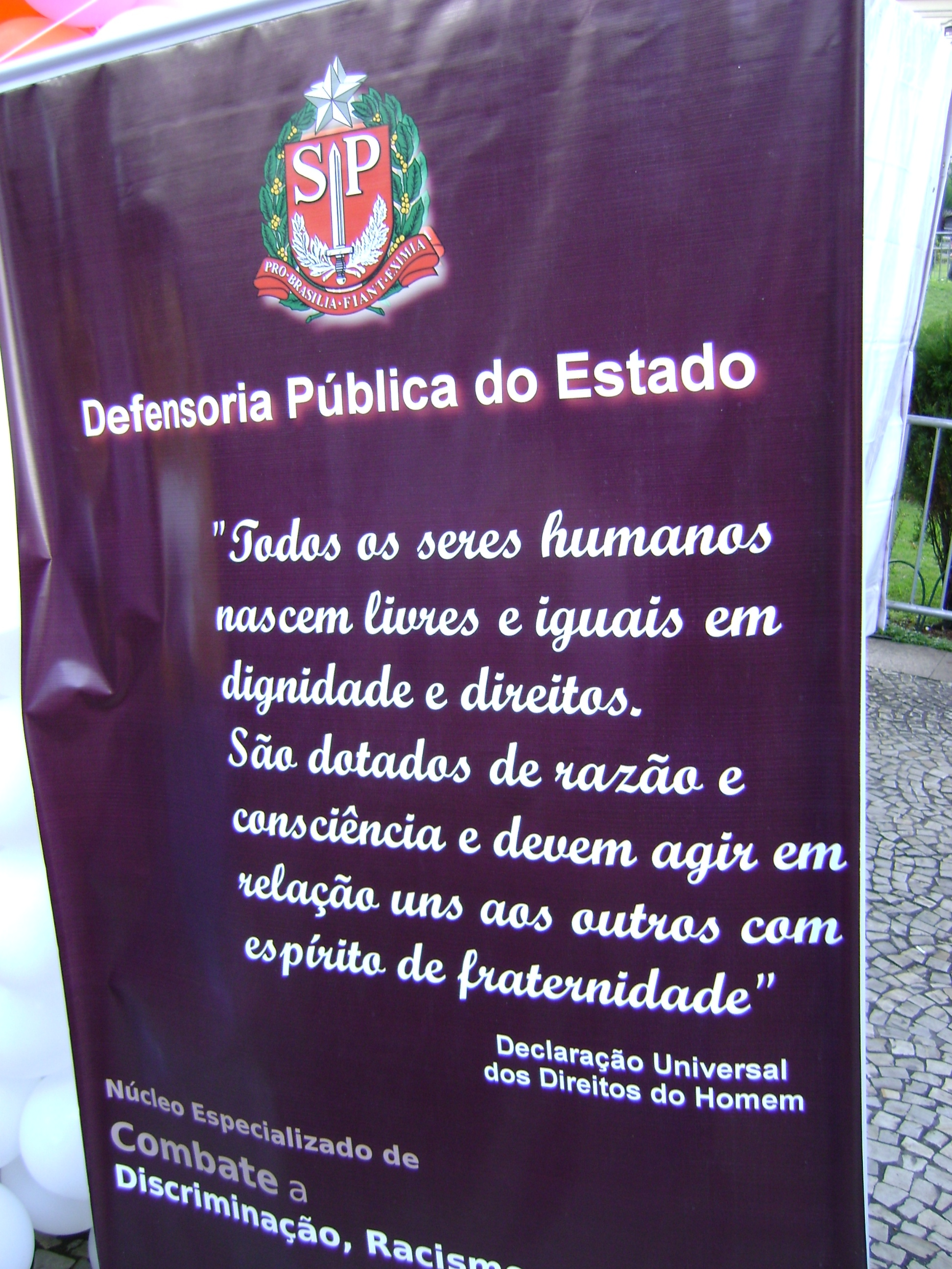 LGBT Cultural Fair in São Paulo, 2009